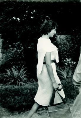 Picture of Inge Henningsen